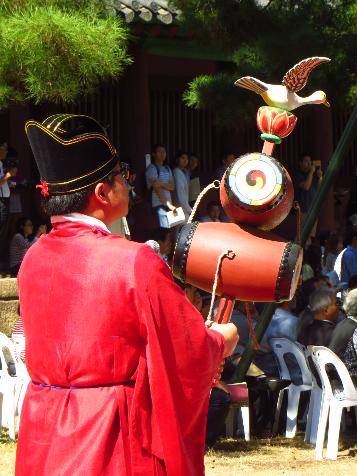 Nodo, traditional Korean musical instrument, used in ritual and court music